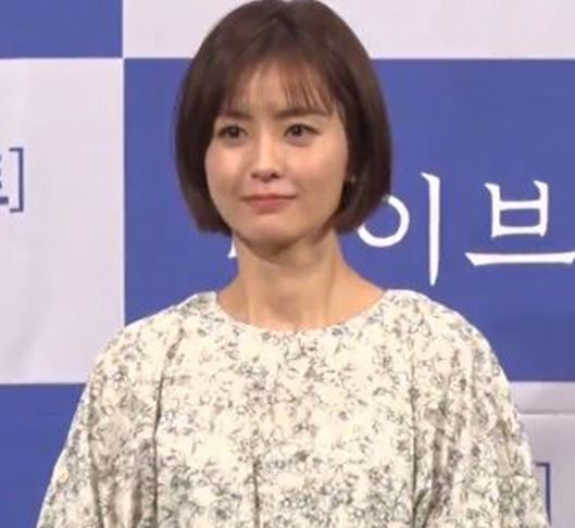 Follow Dispatch! Dispatch Subscribe